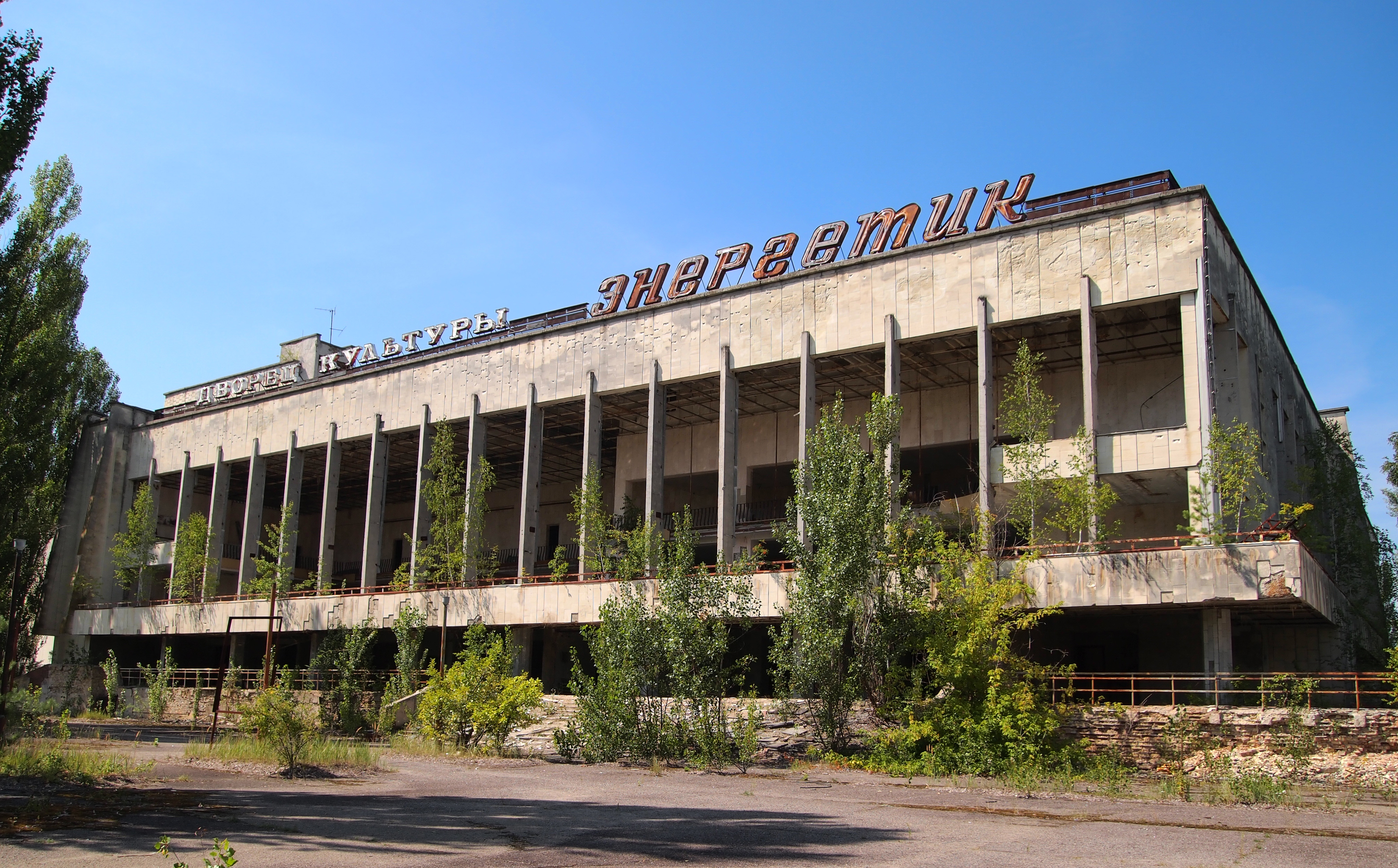 Palace of culture in Pripyat, Chernobyl Exclusion Zone, Ukraine. This photograph was taken with a Olympus E-PL1.